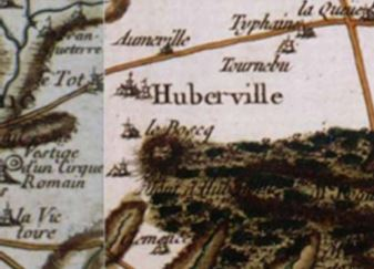 Huberville sur un extrait de la carte de Cassini